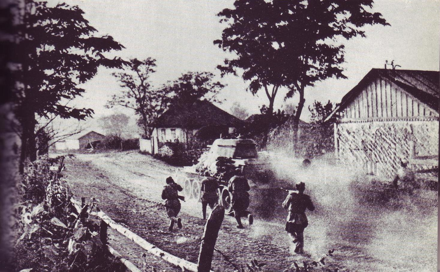 Photo, showing the advance of a Red Army unit in the Ukraine in late summer 1943.